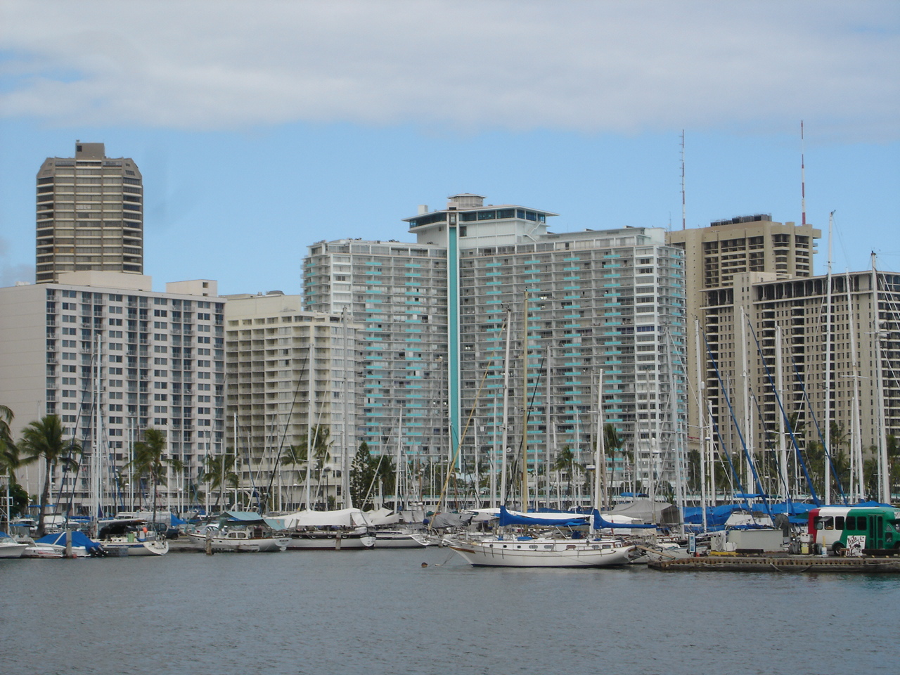 Waikiki